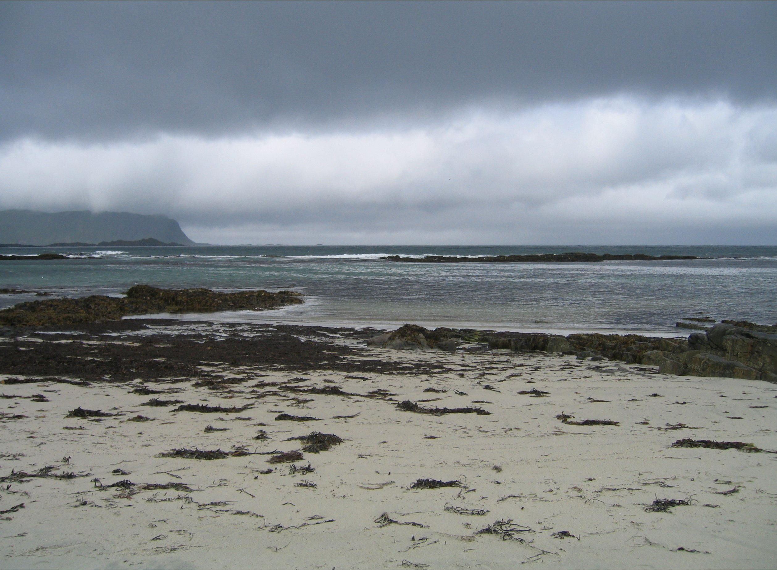 A beach in Flakstad, Lofoten, Norway.